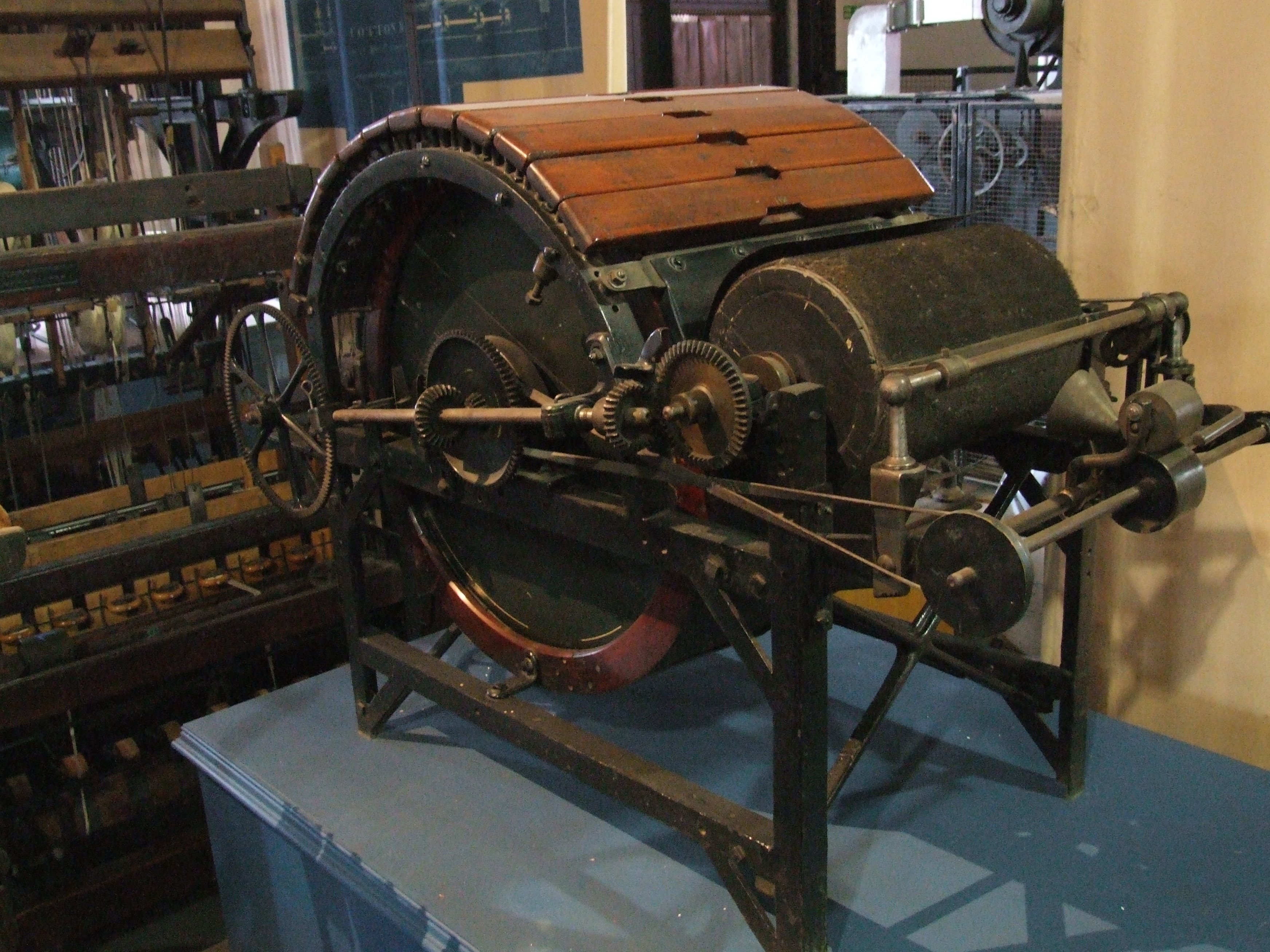 The Museum of Science and Industry (Manchester) contains a collection of textile machines that demonstrate the whole process used in a Cotton mill, and a few key eighteenth century machines. - Google Maps - Google Earth Arkwright's Carding Engine